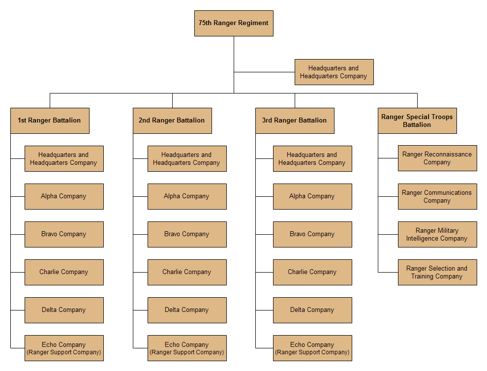 Organization of the US Army's 75th Ranger Regiment